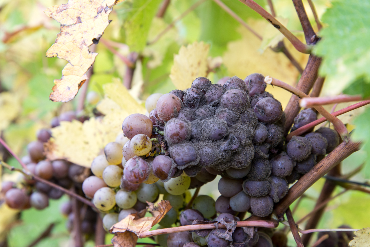 henin blanc grapes growing in Saint Cyr en Bourg in the Saumur region of he Loire Valley infected with Botrytis cinera (noble rot).